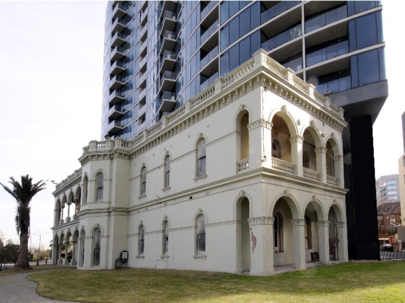 Mansion today